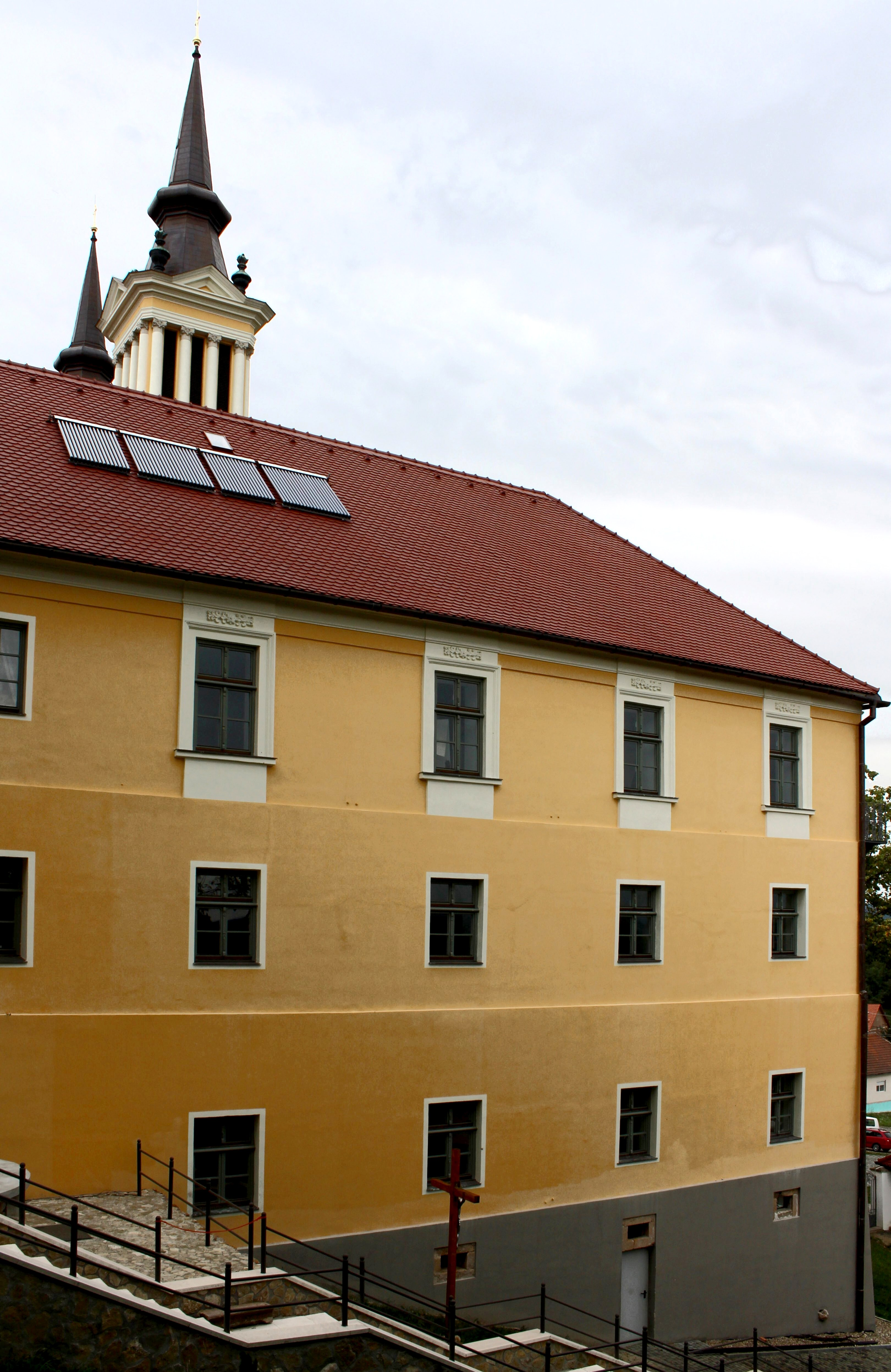 The SW housing of Maria Radna Monastery, Lipova, Romania.